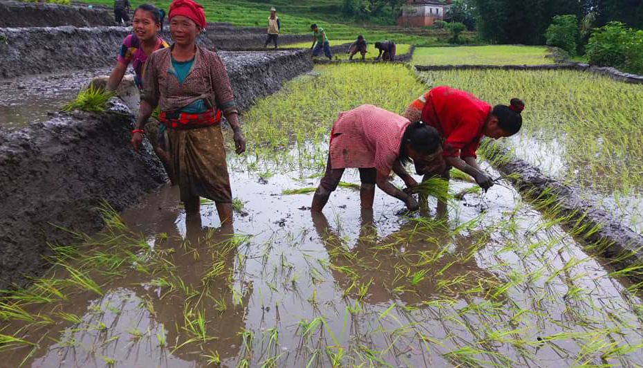 Women Working in the Rice Fields at Khiji Nepal